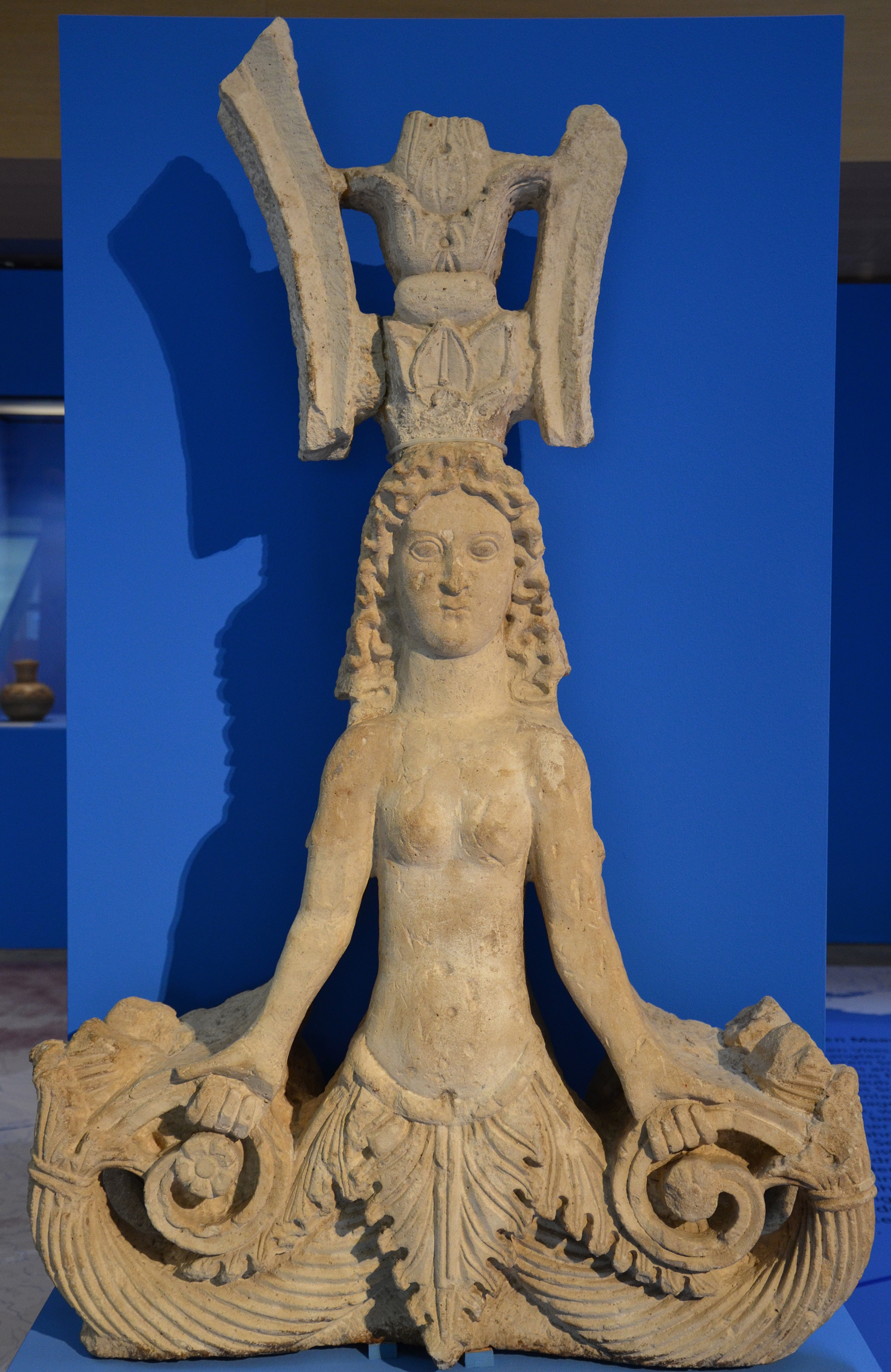 The Mixoparthenos (Greek: Μιξοπάρθενος) was a Greek mythological figure, a variety of Siren somewhat akin to a Mermaid, traditionally hailing from the Black Sea region. The name means "half-maiden" and is the surname of the Furies. The form of the Mixoparthenos is distinctive - above the waist, a beautiful woman, but covered with scales from waist down, ending in a double snake-tail. Some versions have the Mixoparthenos ending in a double fish-tail. In Herodotus's Histories (4.9.2), Heracles marvels at a Mixoparthenos when he meets one, and mates with her, producing three sons, the youngest of which eventually became the founder of the Scythian nation. The Starbucks logo depicts a Mixoparthenos, of the double fish-tailed variety. The mixoparthenos is a mythical creature whose image, to this day, is seen in the coastal areas around the Greek colonies of the Black Sea, where wheat has been a major crop since ancient times. Herodotus writes that the horses of Heracles was stolen by the mixoparthenos, who promised to return them if he mated with her. How could Hercules resist! From their union came three sons, the youngest, Scythes, the only son who could bend the bow of Hercules. He became king of the people who would be called Scythian. There were many Scythian wheat growers around the Black Sea. See more at